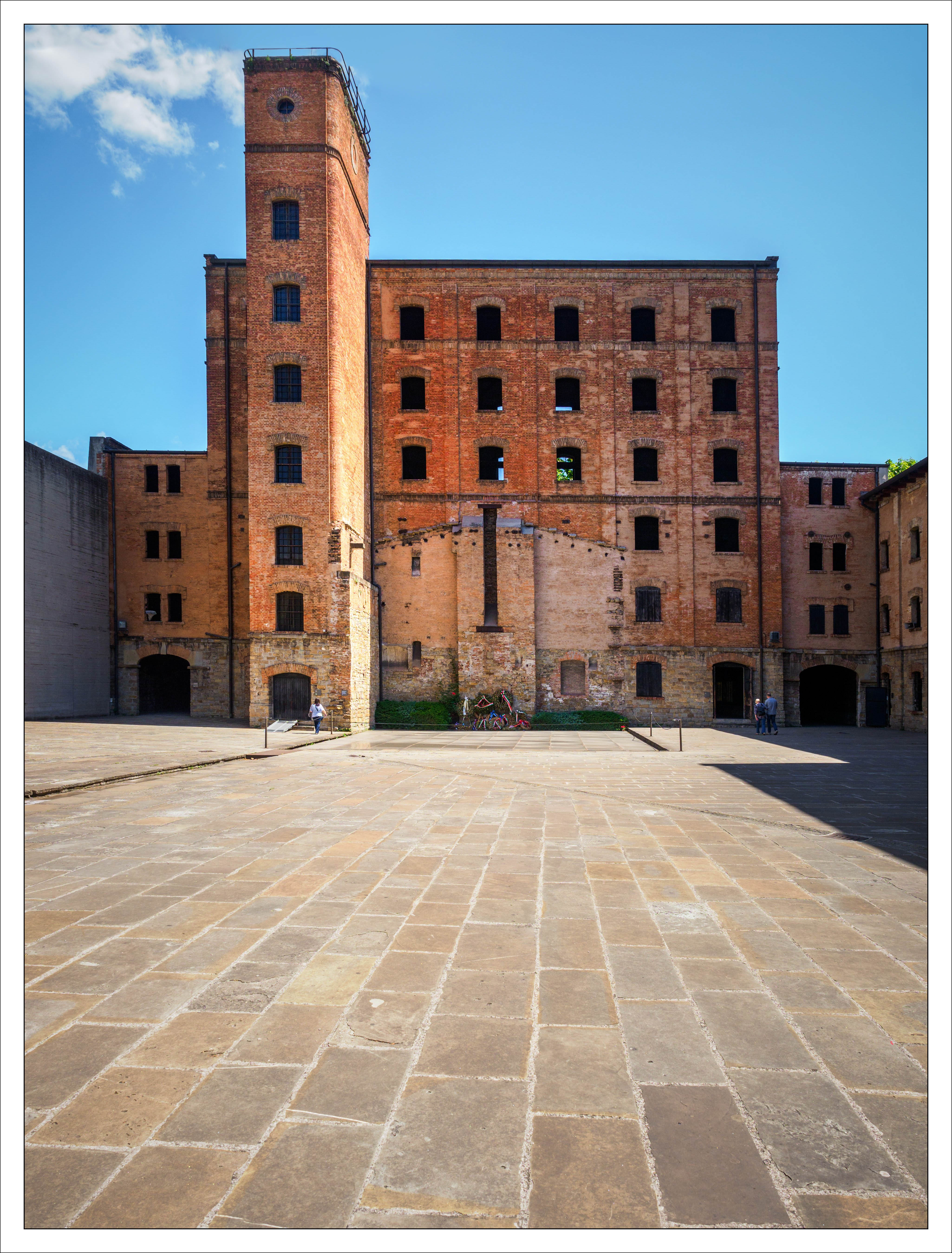 Andreas Manessinger, , Creative Commons BY-SA